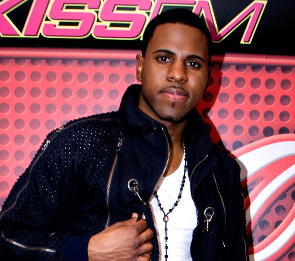 Jason Derulo at 103.5 KISS FM Chicago Coca Cola Lounge, photo by Adam Bielawski